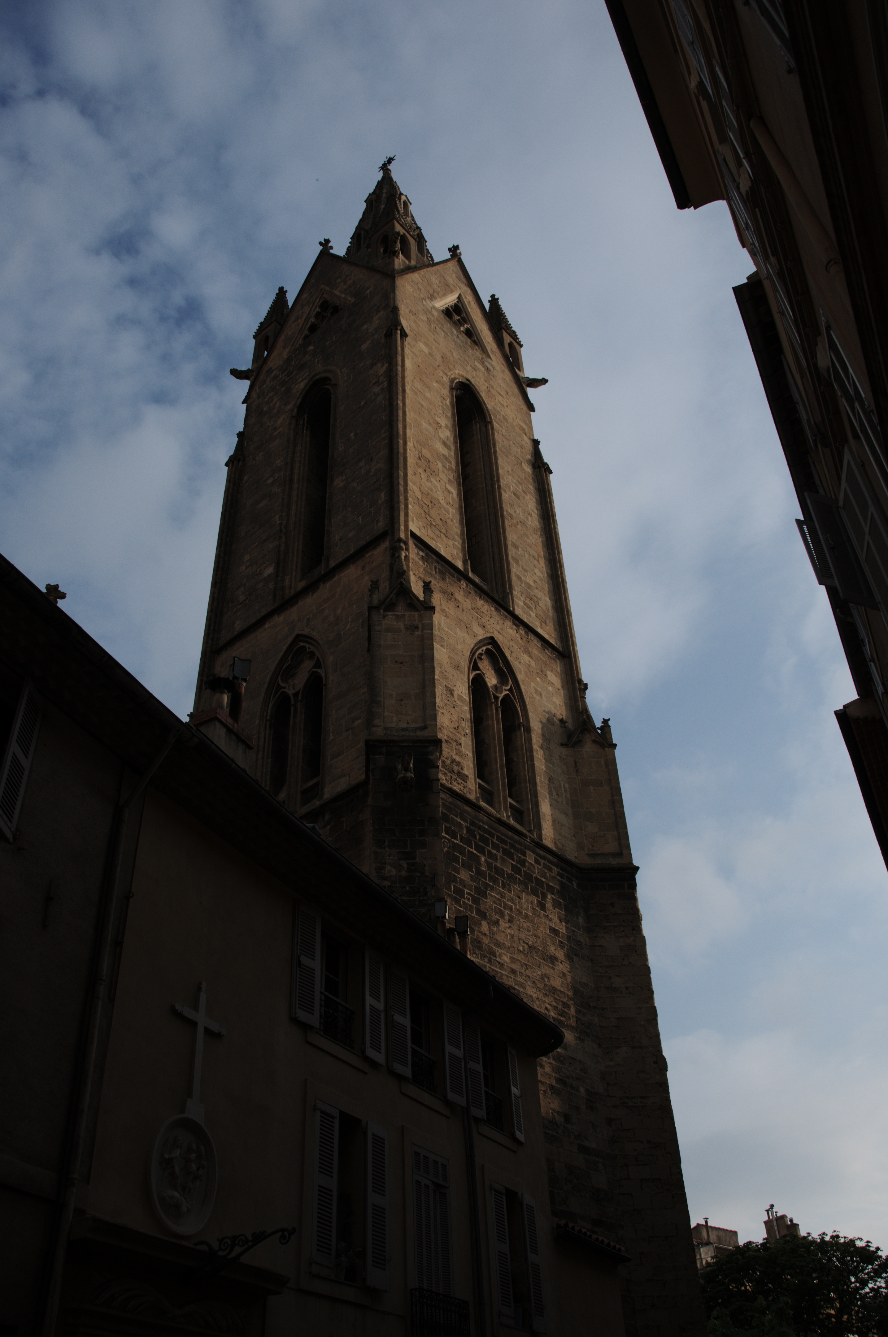 Saint-Jean-de-Malte Church, place Saint-Jean-de-Malte, Aix-en-Provence, France.